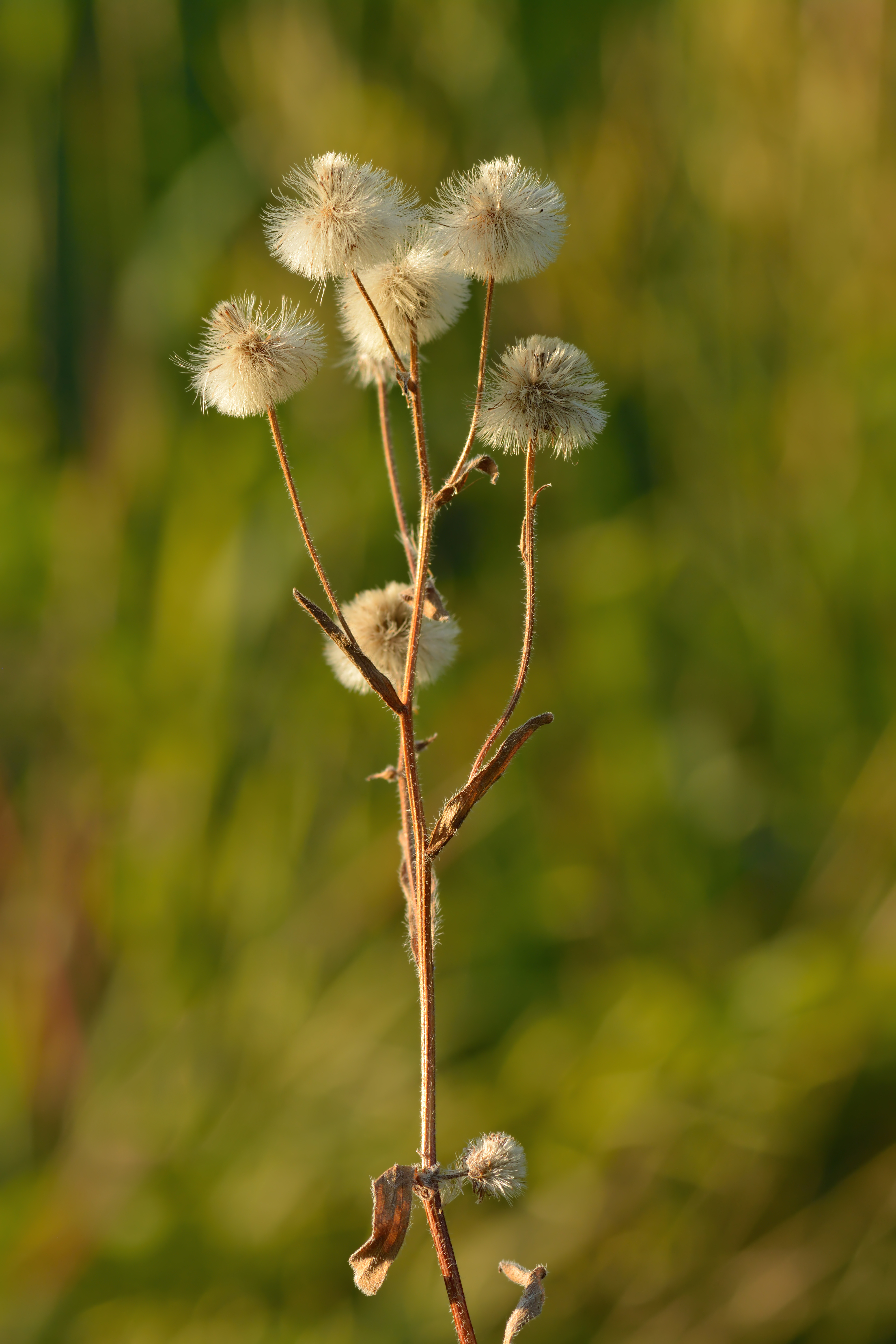 Bitter fleabane (Erigeron acer). Keila, Northwestern Estonia.